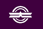 Flag of Owani Aomori